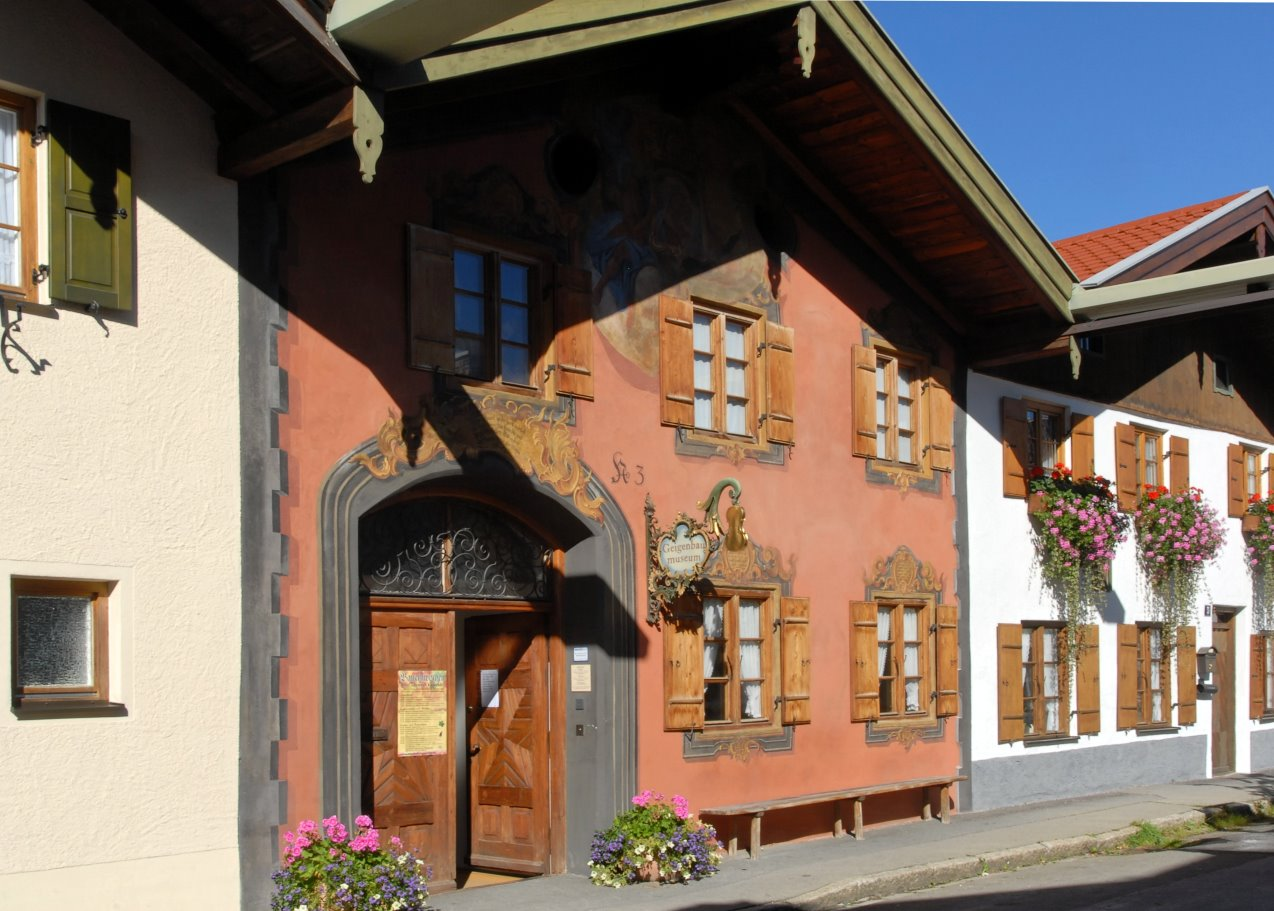 city Mittenwald, museum for violin making in street Ballenhausgasse